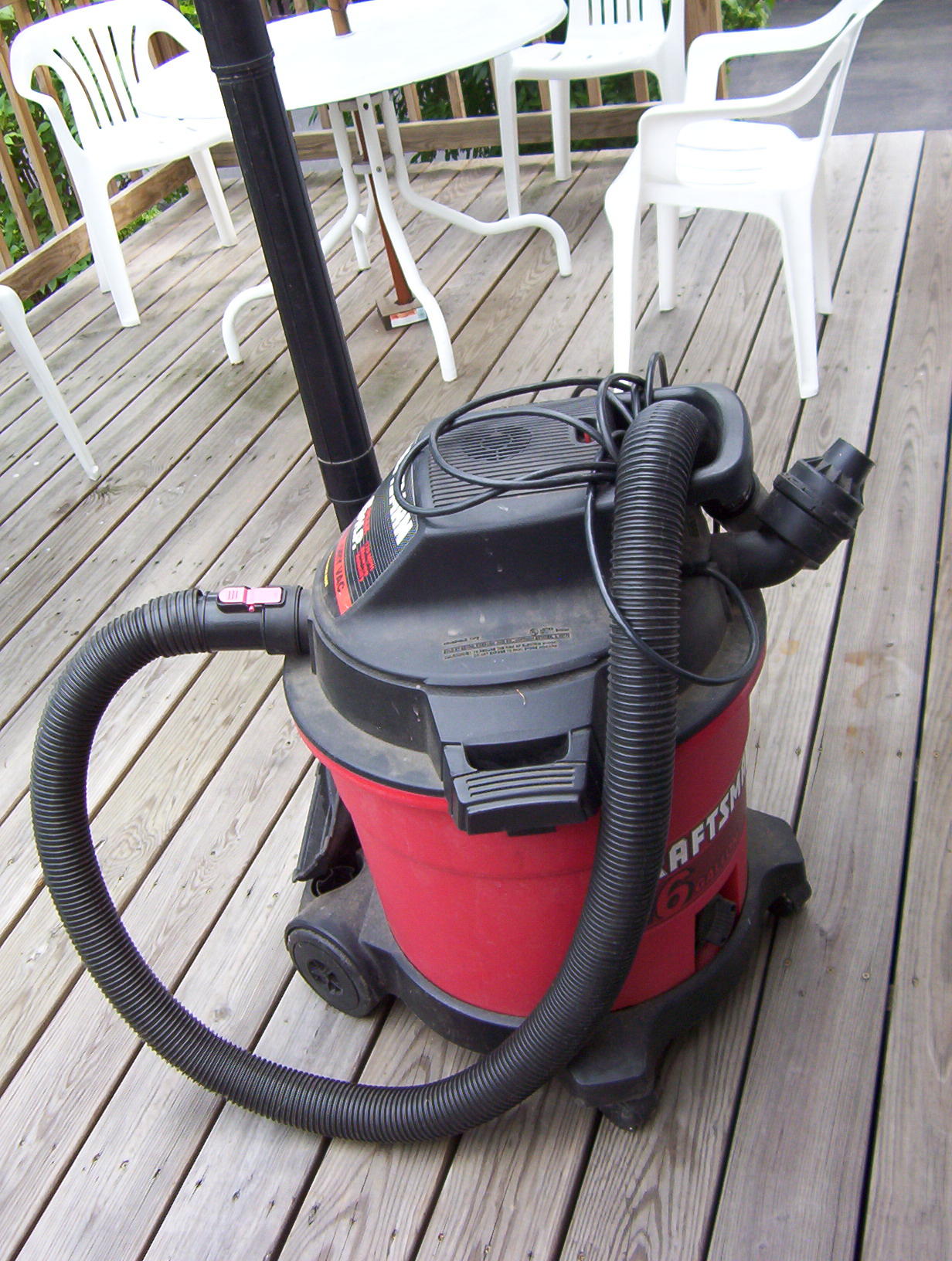 Craftsman 16 Gallon Wet/Dry (shop) Vac